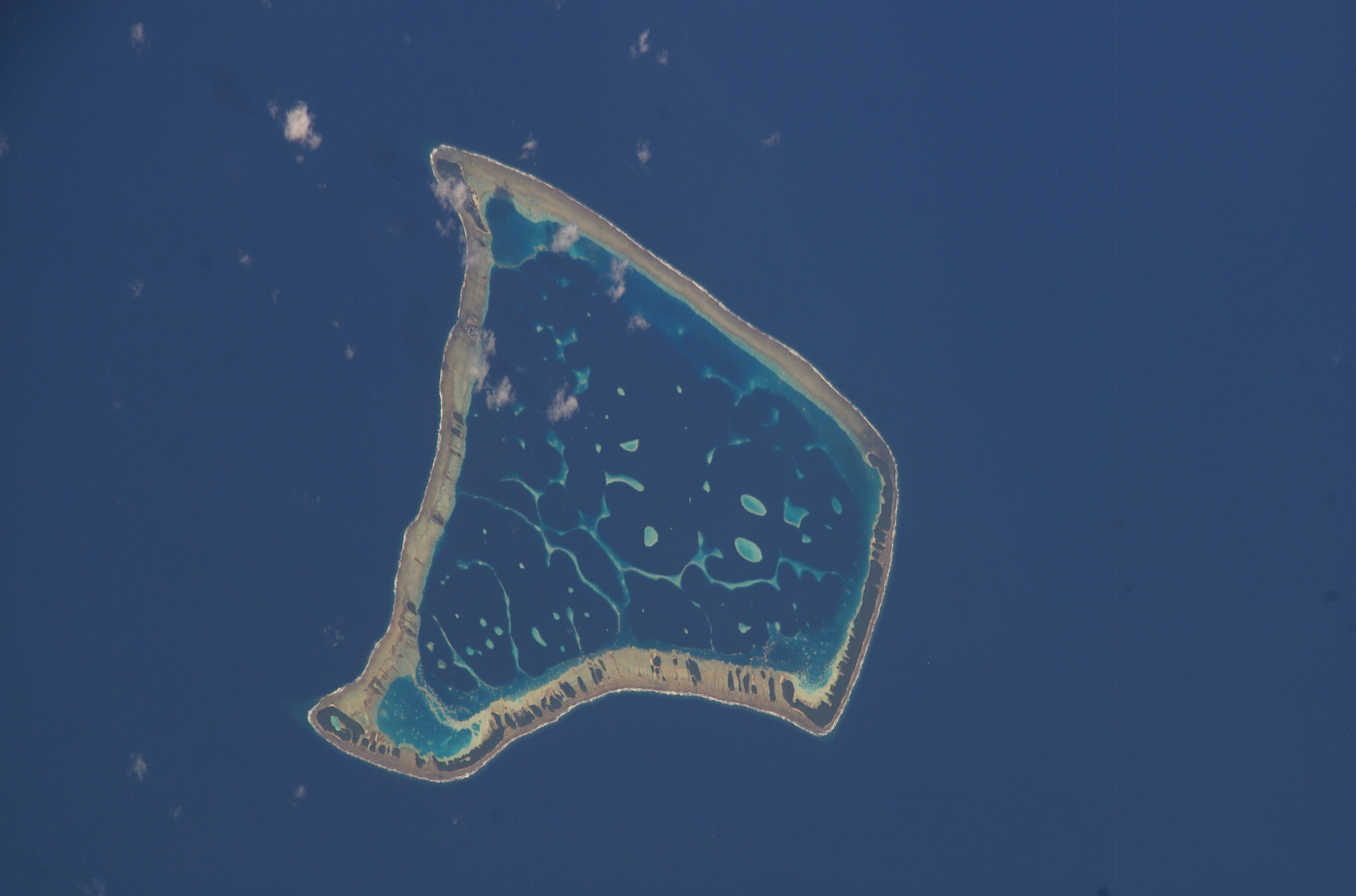 Satellite picture of the Fakaofo atoll in Tokelau.